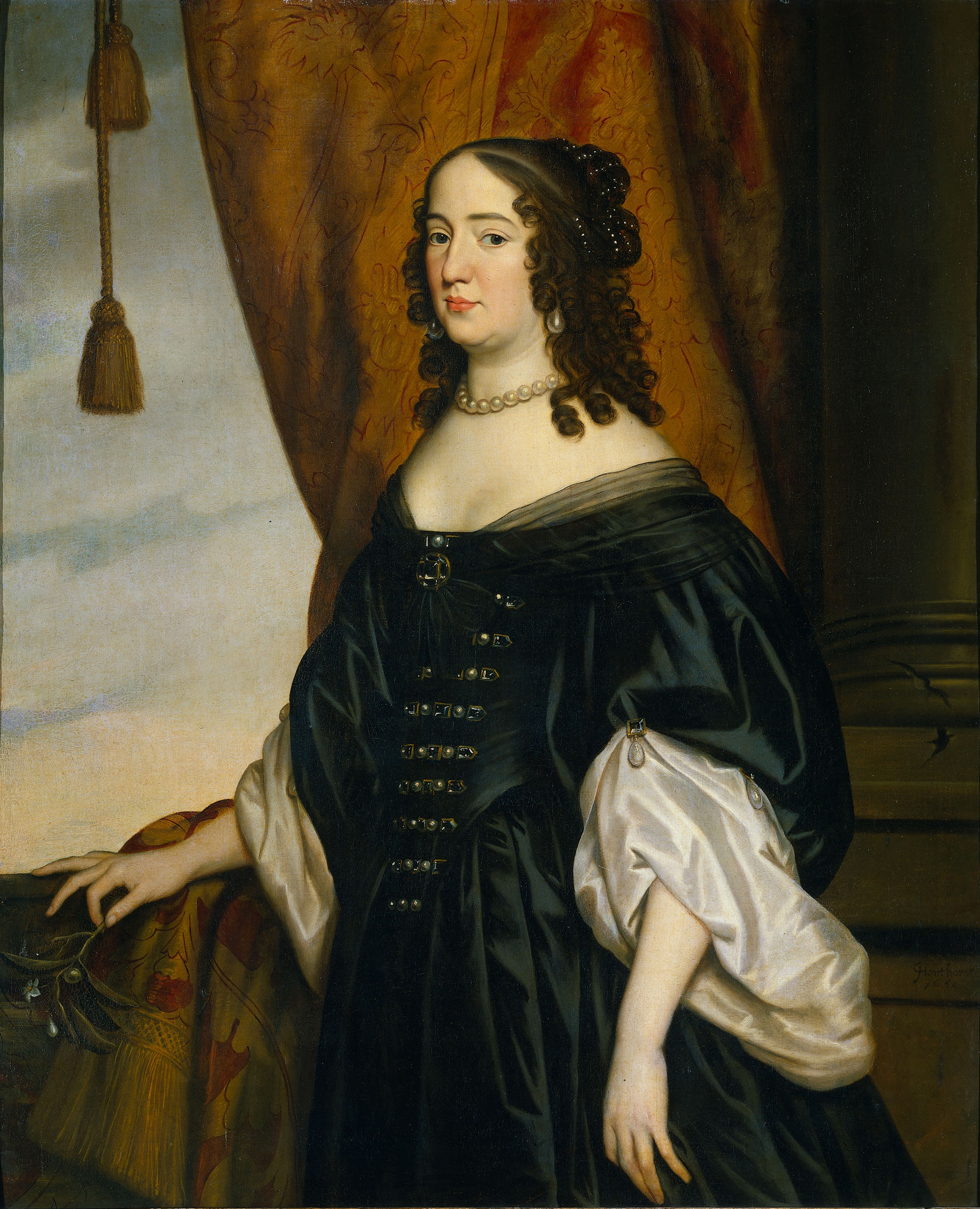 Portrait of Amalia of Solms, wife of Frederick Henry of Orange, at knee-length, standing by a balustrade and a column, holding an olive branch in her right hand. Pendant of File:Portret van Frederik Hendrik (1584-1647), prins van Oranje Rijksmuseum SK-A-178.jpeg.